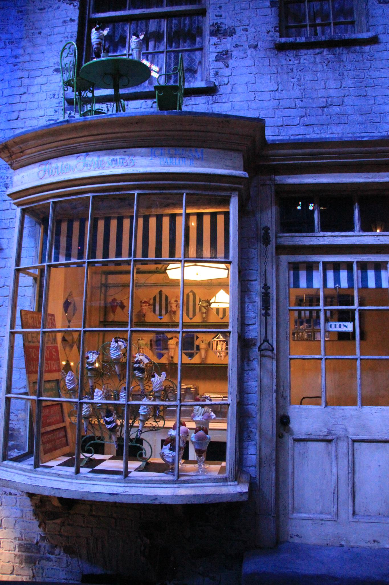 Warner Bros. Studio Tour London: The Making of Harry Potter.